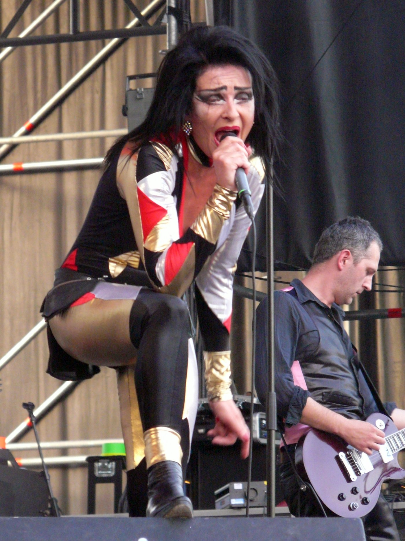 Siouxsie at the Saturday Night FIBer festival in Madrid, July 19 2008.